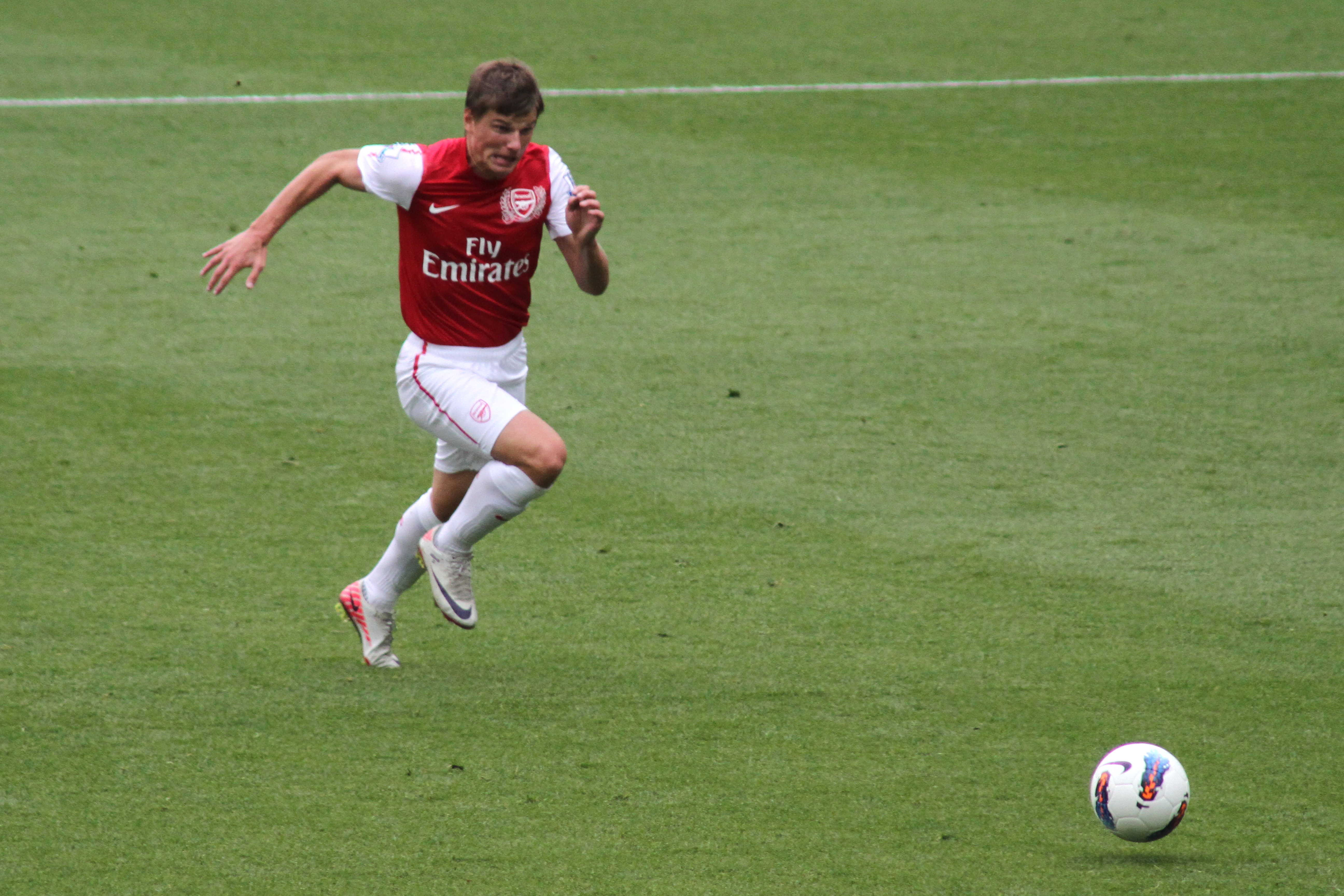 Andrey Arshavin of Arsenal.